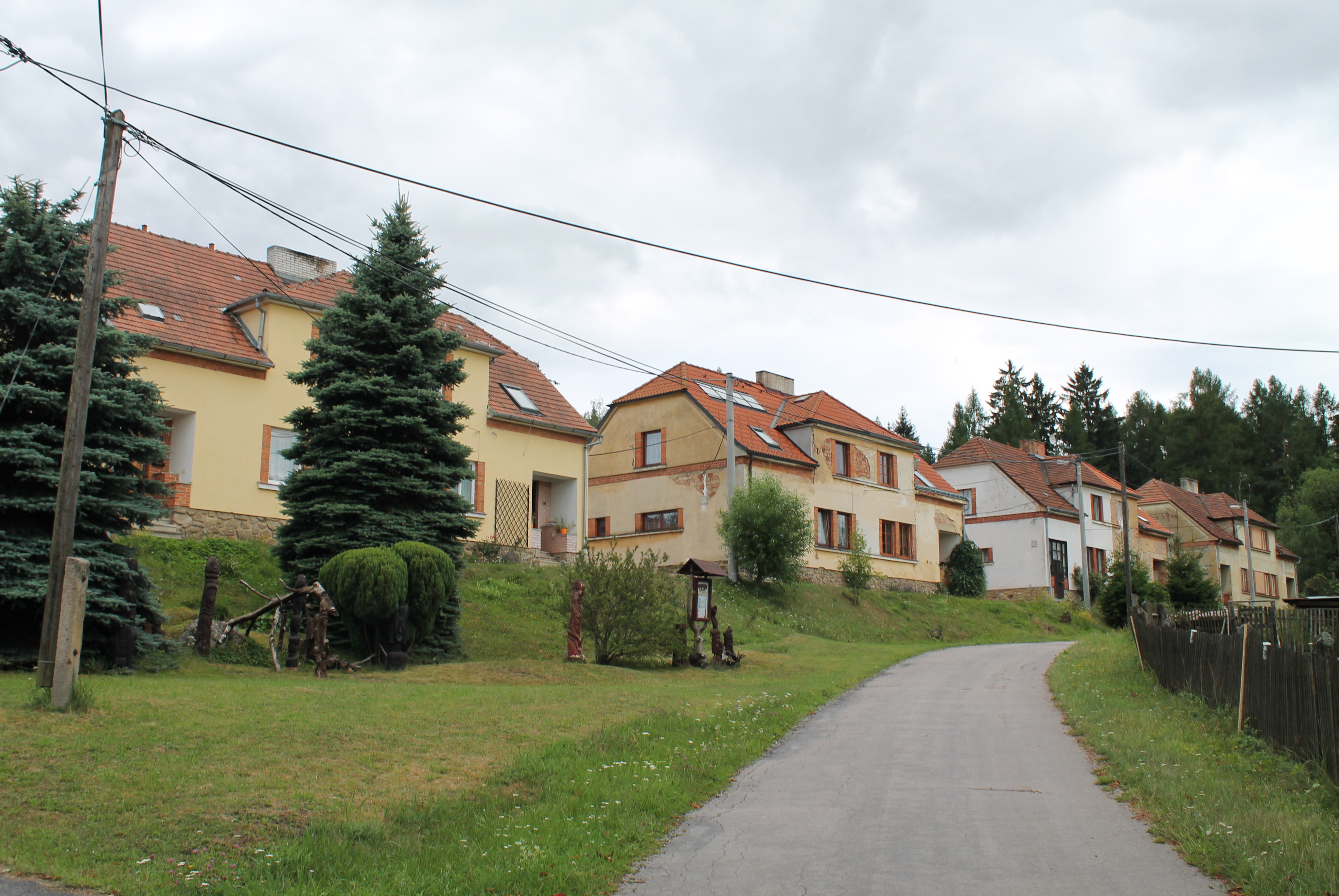 Rozsíčky, Dyjice, Jihlava District, Czech Republic